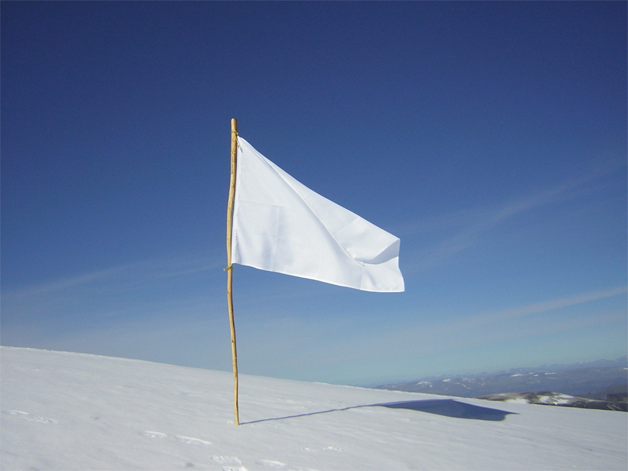 White Flag on top of a mountain